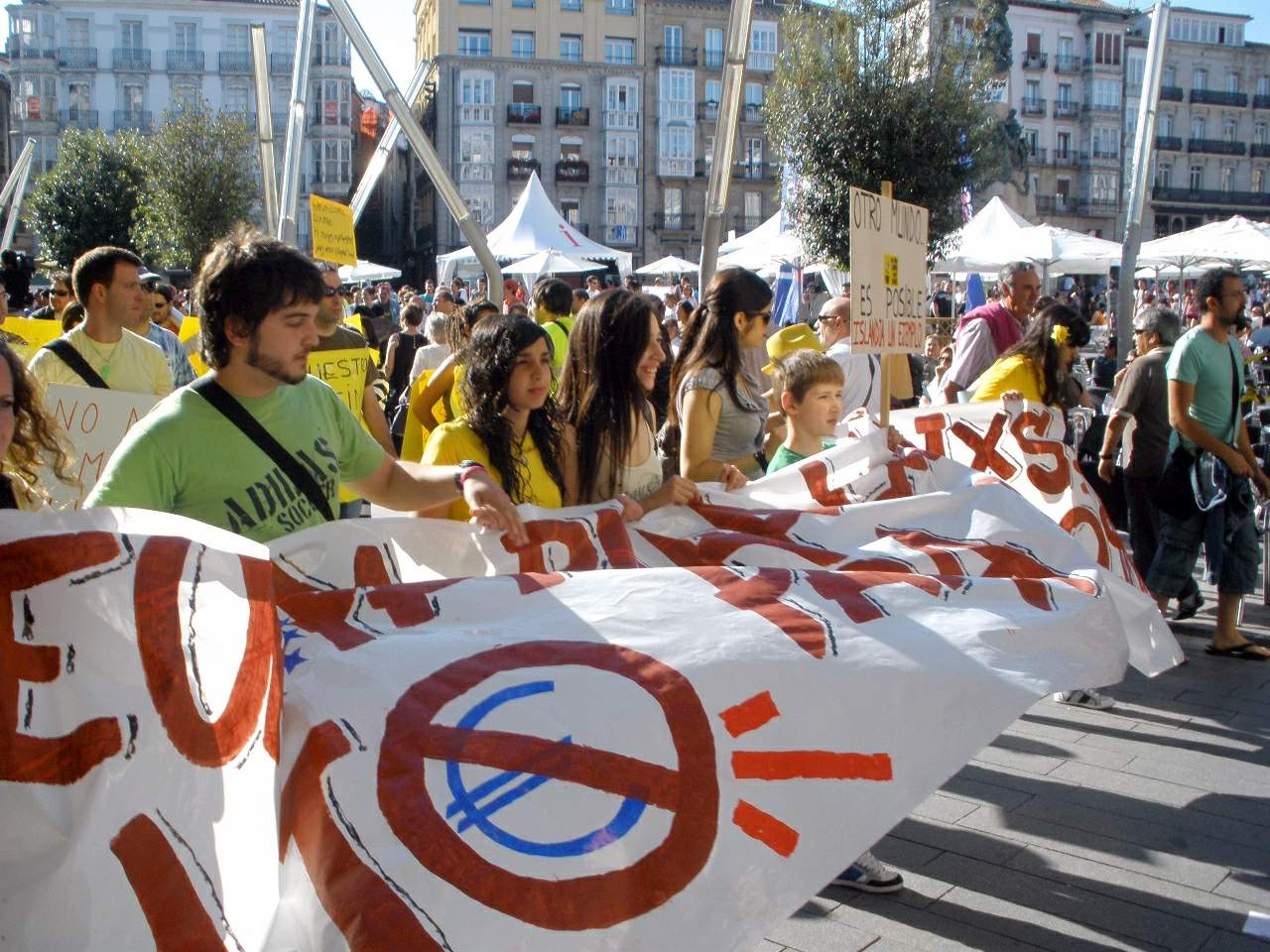 Manifestación del 19 de junio de 2011 (19-J), dentro del Movimiento 15-M, contra el Pacto por el Euro, en la Plaza de la Virgen Blanca de Vitoria-Gasteiz